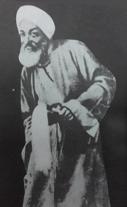 Naguib el-Rihani playing the role of "kishkish bey" in a theatrical from 1917.